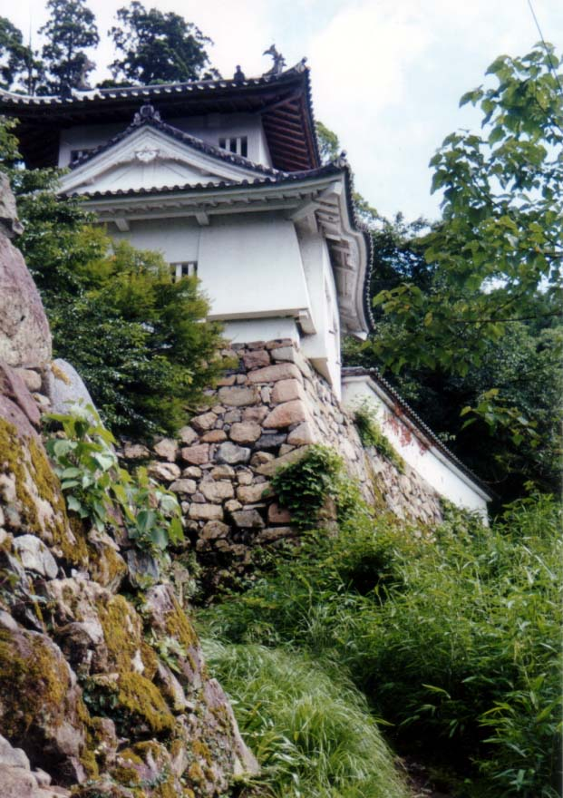 photo of Izushi Castle a Nishi-sumiyagura(rebuild in 1968)